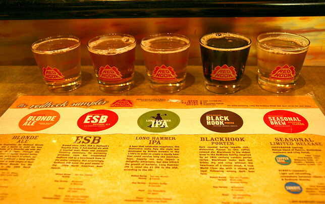 Red Hook Sample.